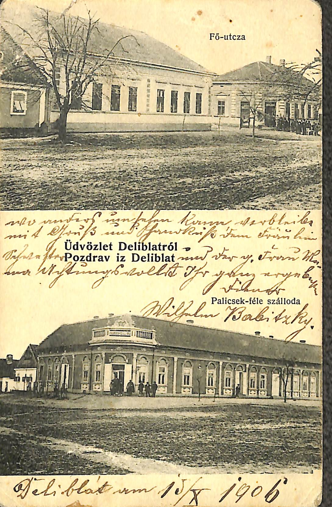 Postcard from Deliblato